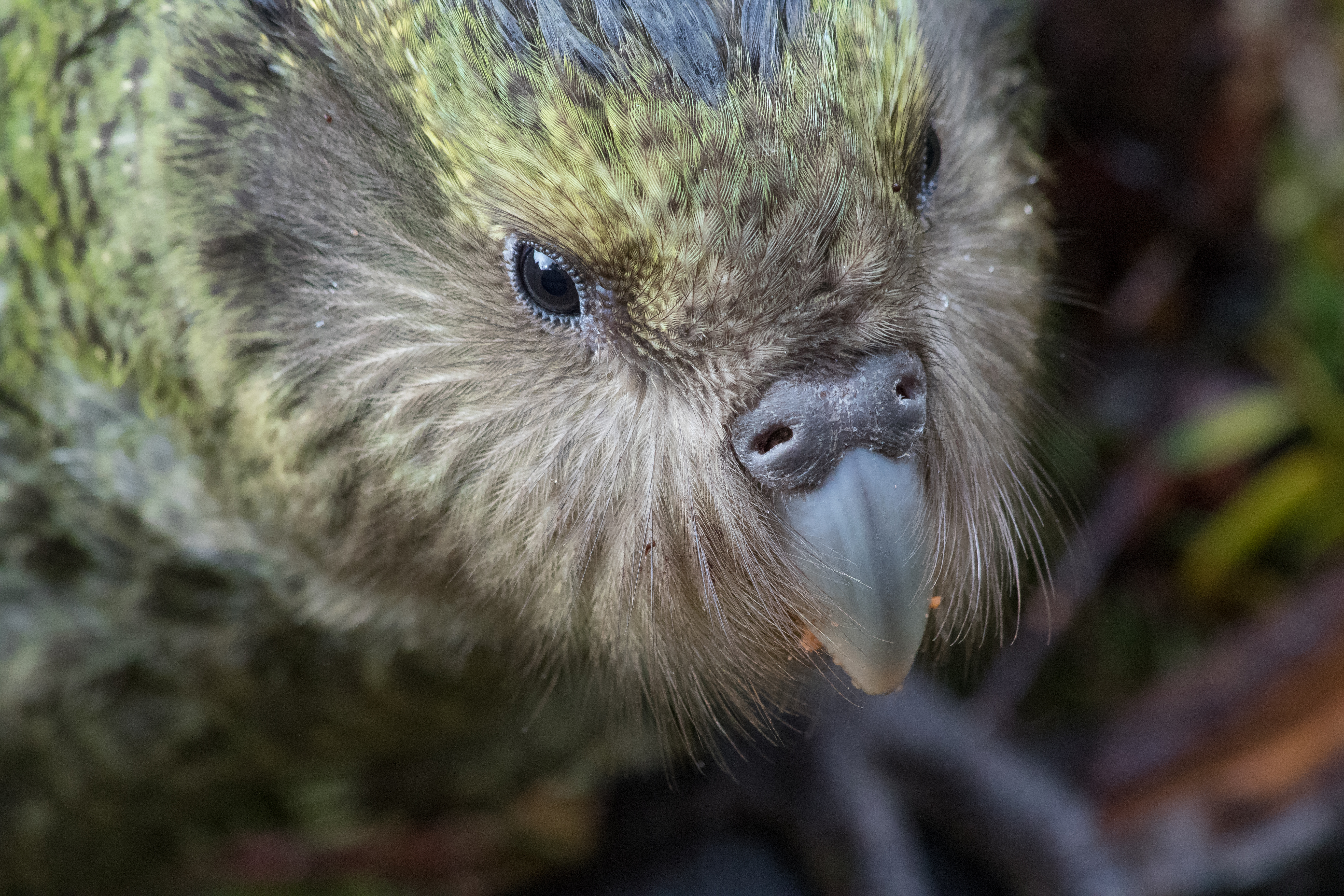 Juvenile kākāpō (Strigops habroptilus) on Anchor Island in Dusky Sound, New Zealand